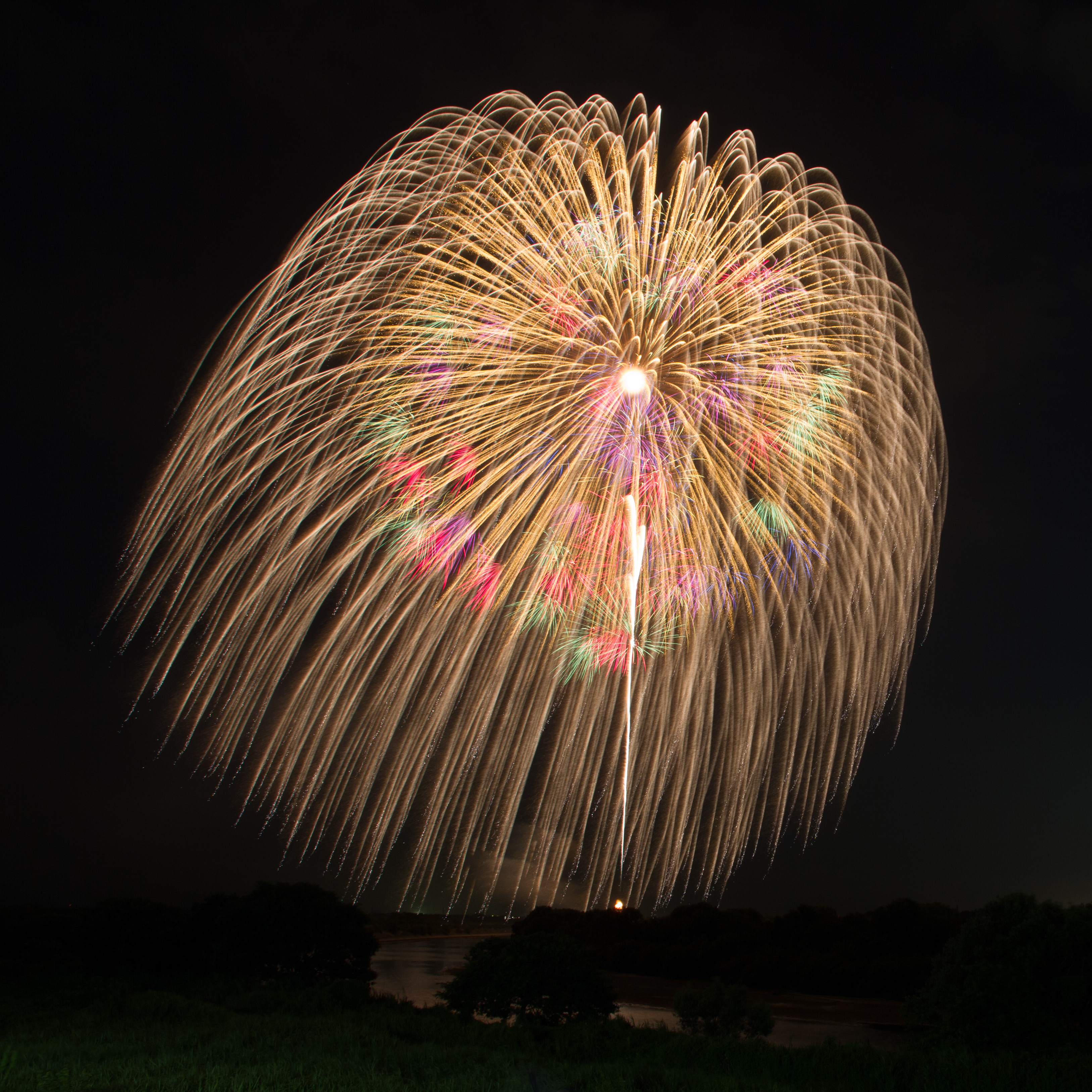 I've visited fireworks festival in Koga, Ibaraki, Japan. I've been wanted to visit the festival for more than 2 years, becuase it has one of largest fireworks in Kanto region and I hear the festival is amazing. I finally visit there yesterday and I found it amazing. Compare the river on the bottom to get idea how large this fireworks is! The river is not a small one, but very large. The width of the river is about 100m. According to the official web site of the fireworks festival, the diameter of the fireworks is about 650m and is larger than Tokyo Sky Tree. 2年前からずっと行きたかった茨城県古河市の花火大会に行ってきました。関東地方最大級の3尺玉がとにかくすごいという話を聞き、かなり期待していましたが、あまりにも大きくてビックリしました。手前の川は渡良瀬川で地図上で確認したところ川幅がおよそ100mあります。肝心の花火ですが、公式Webサイトによると上空約600mを中心に直径650mの花火が広がり、東京スカイツリーをもしのぐ大きさなのだそうです。 [ Canon EOS 7D, Canon EF-S 15-85mm f/3.5-5.6 IS USM, 15mm, f/10.0, 25sec, ISO100 ]